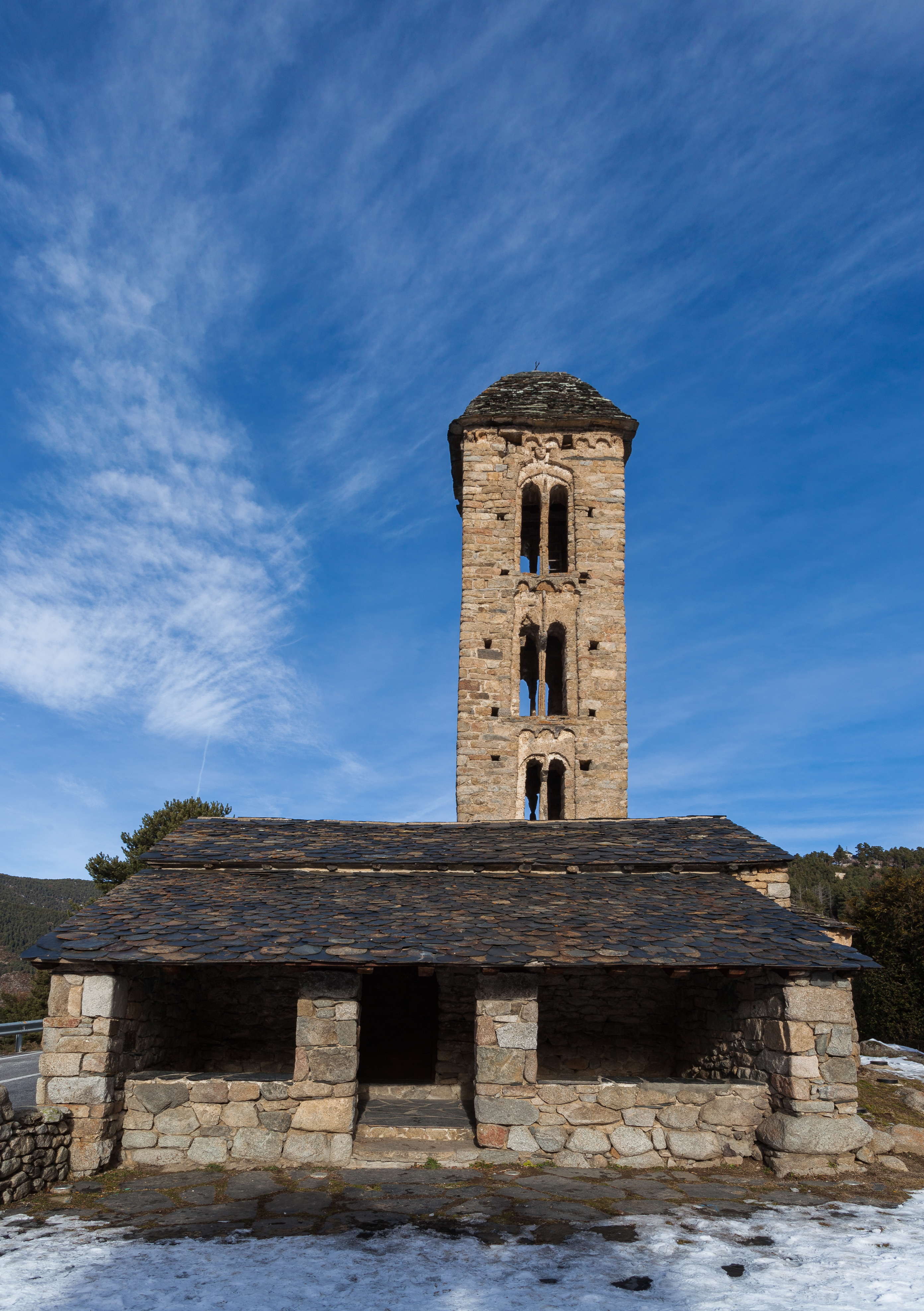 St Michel church, Engolasters, Andorra